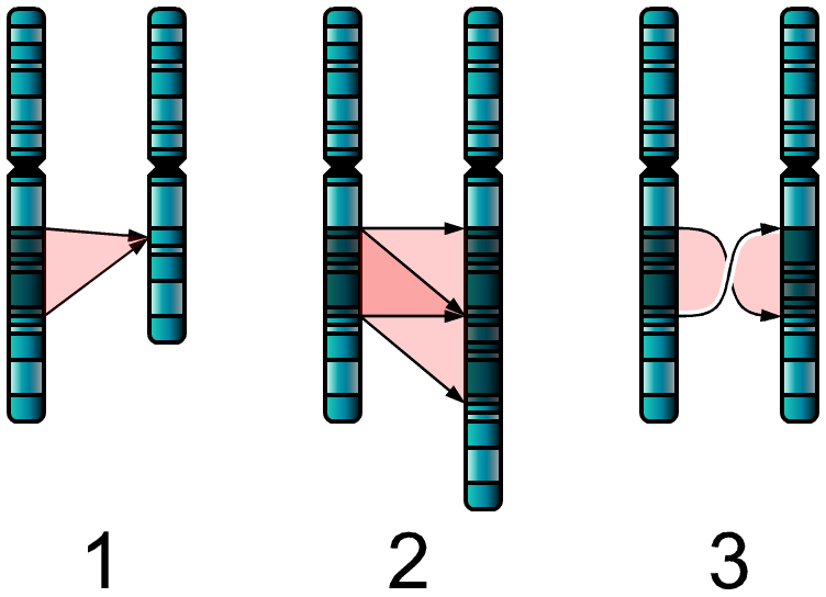 By Richard Wheeler (Zephyris) 2007. The three major single chromosome mutation; deletion, duplication and inversion.